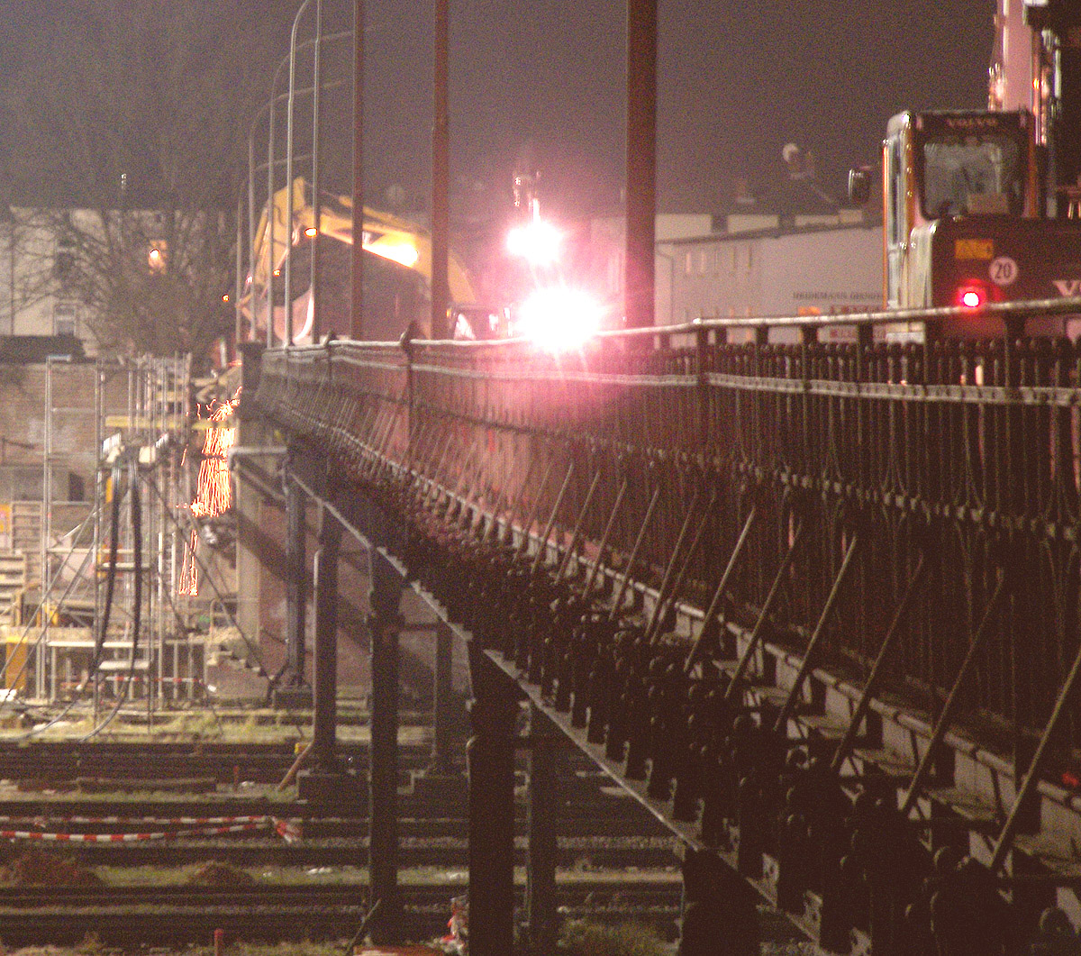 St.-Lorenz-Brücke/St. Lorenz Bridge (commonly known as Meierbrücke) spanning the railway tracks of Lübeck central station. Erected in 1906, demolished in 2008.